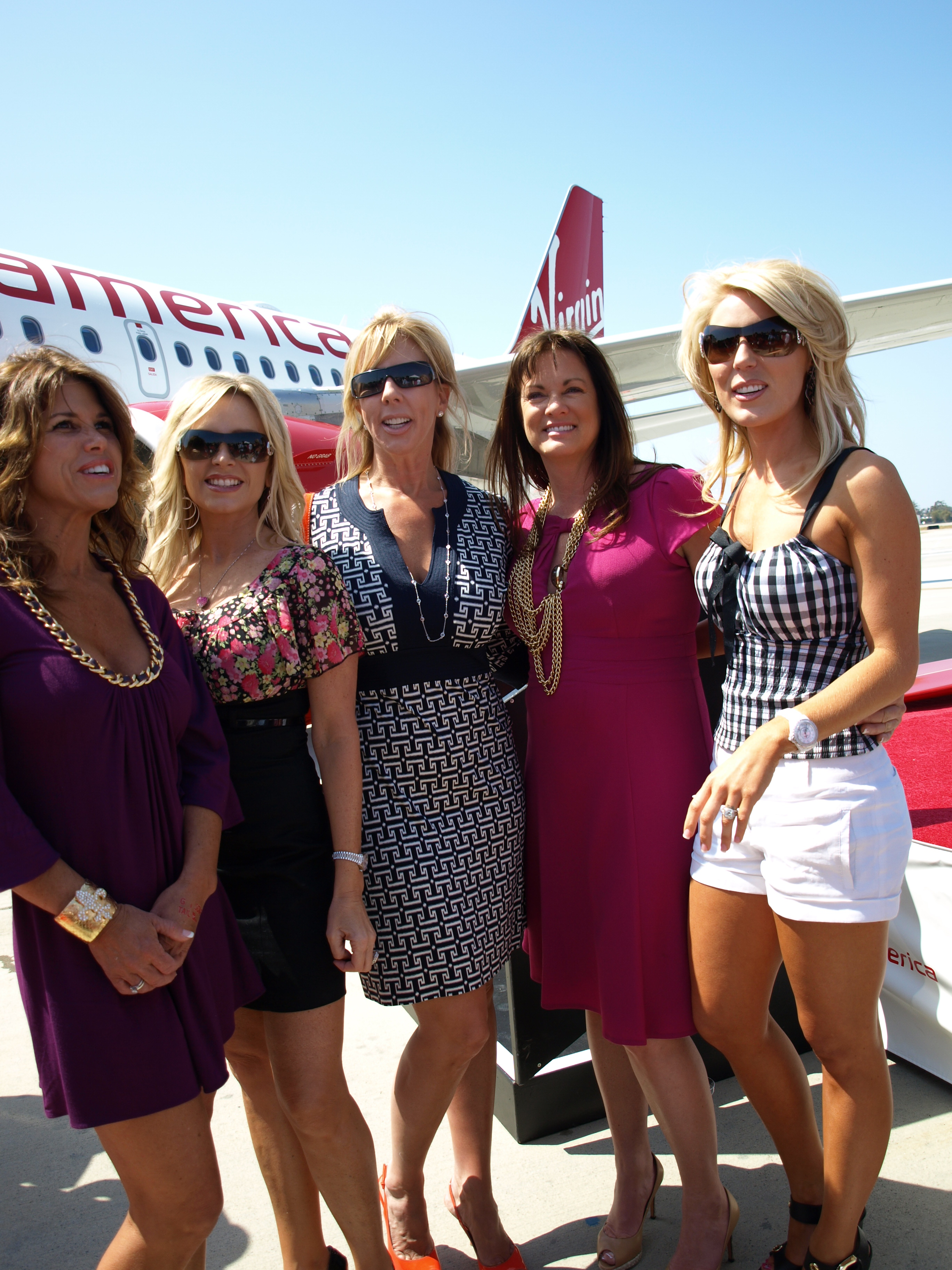 Lynne Curtin, Tamra Barney, Vicki Gunvalson, Jeana Keough, and Gretchen Rossi at the Virgin America OC Launch.